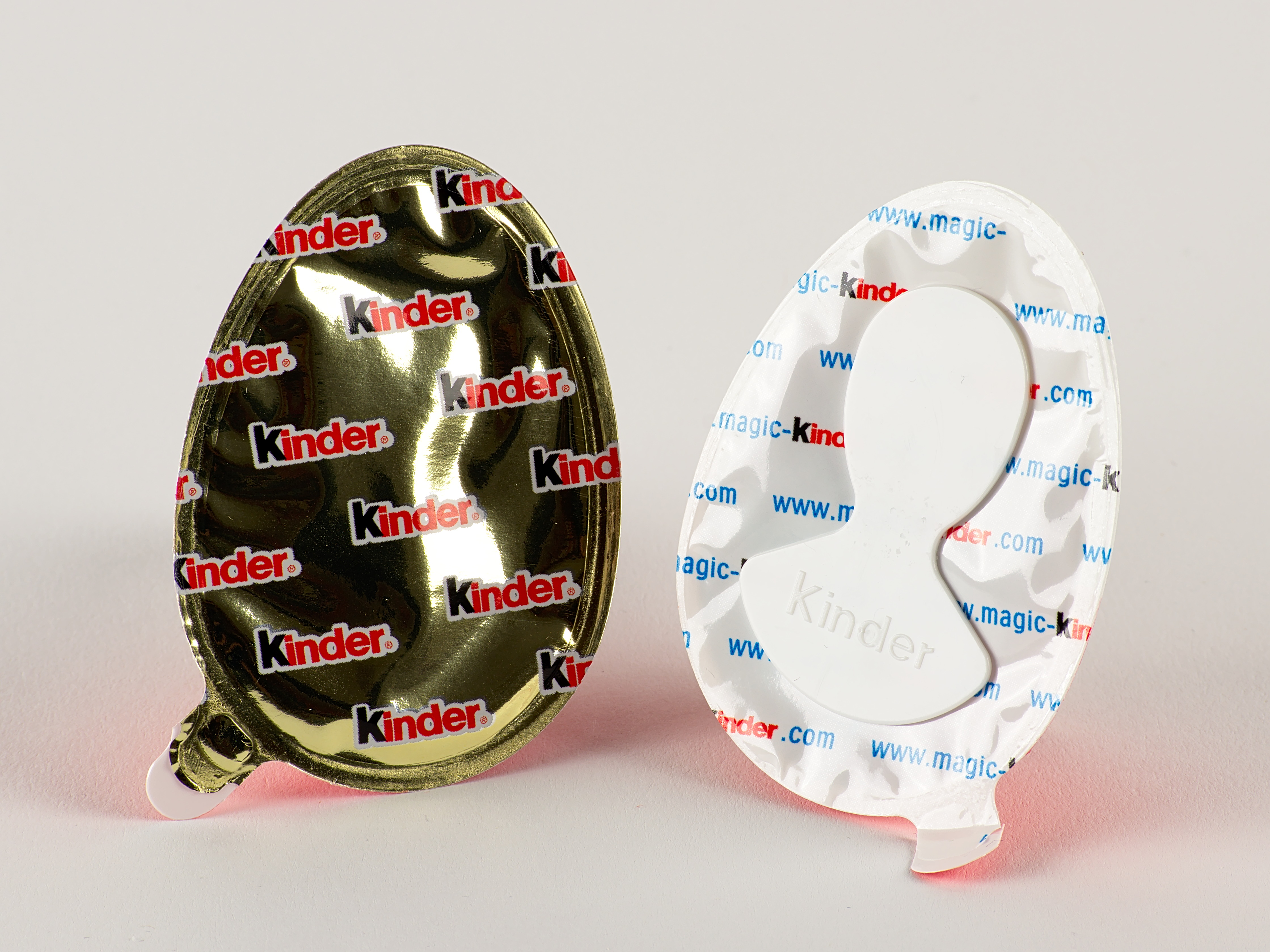 A Ferrero “Kinder Joy” Egg, both halves pulled apart.